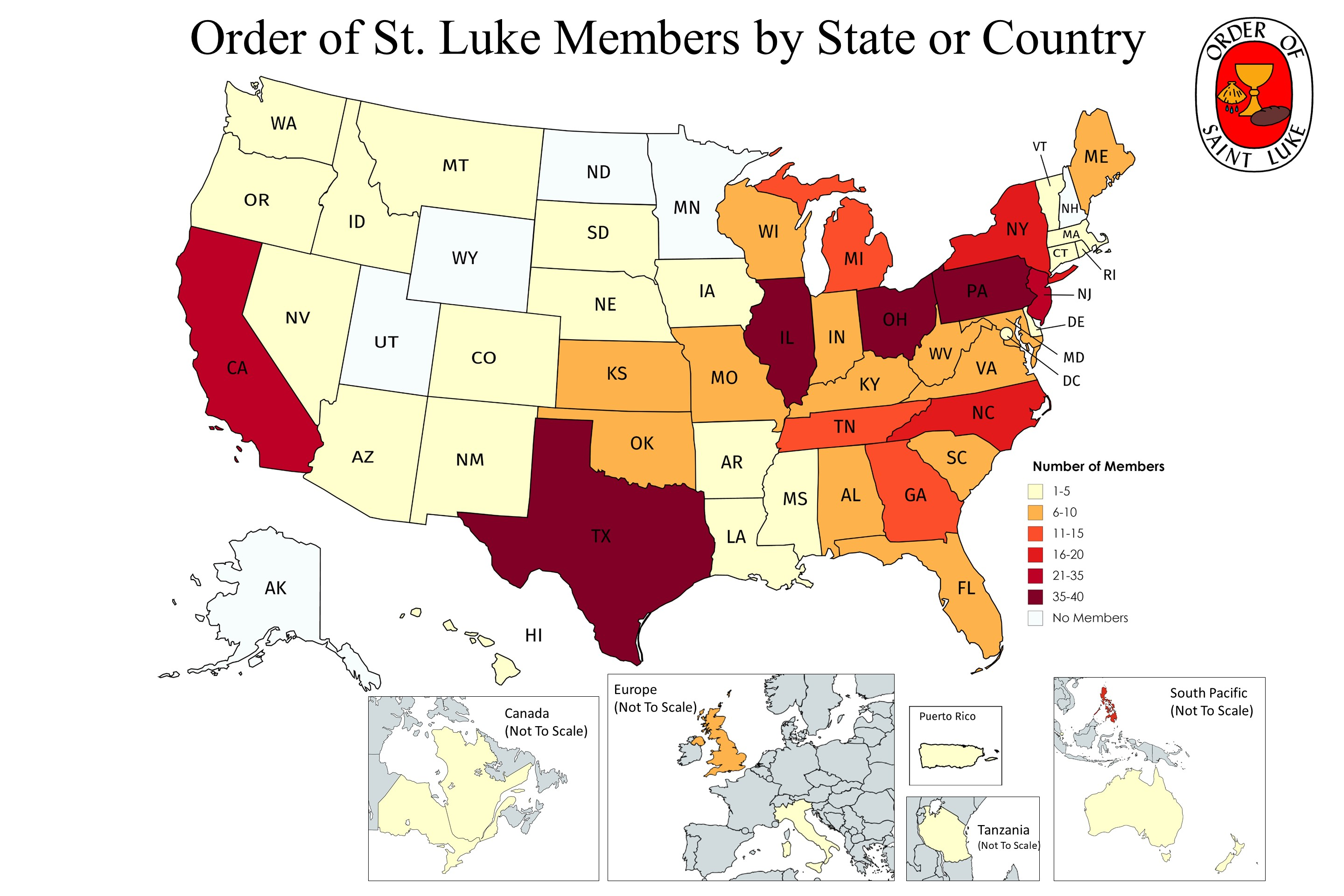 Order of St. Luke Member distribution as of April 2020